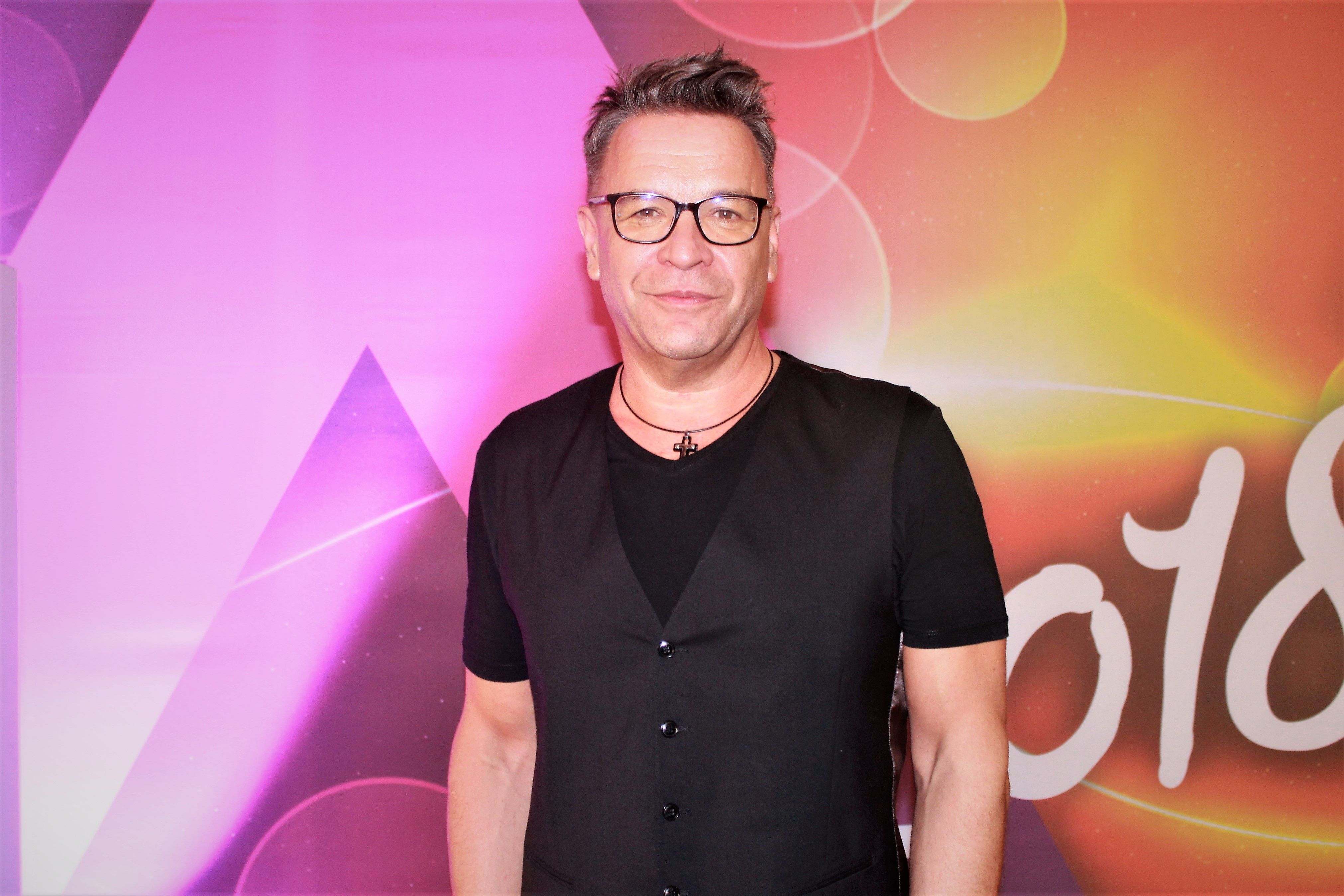 A Dal 2018 participant: Zsolt Süle